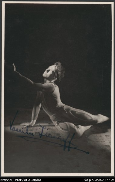 Portrait of Vassilie Trunoff in costume for the Aborigine in Terra Australis, Borovansky Ballet